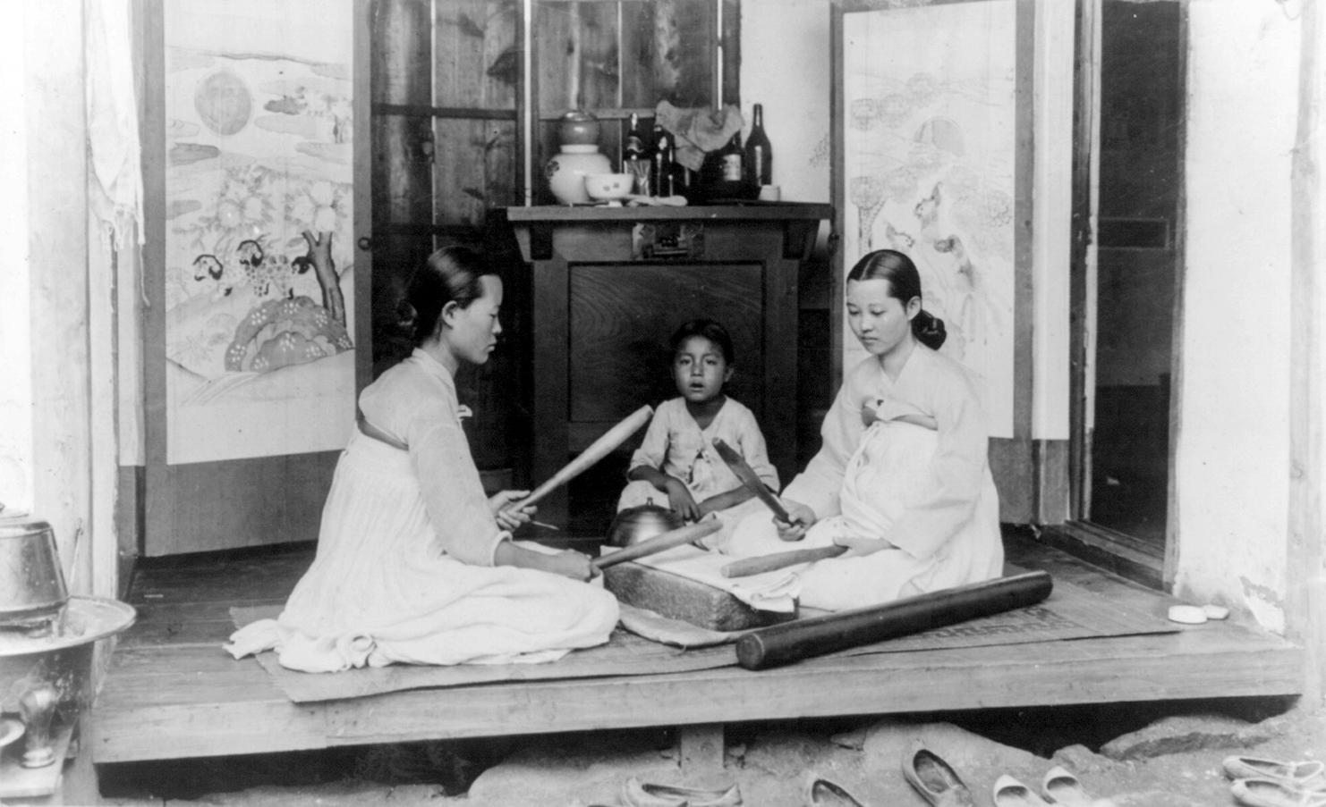 TITLE: Korean women, ironing with round modern sticks. CALL NUMBER: LOT 11356-3 [item] [P&P] REPRODUCTION NUMBER: LC-USZ62-29309 (b&w film copy neg.) CONTROL #: 2001705500